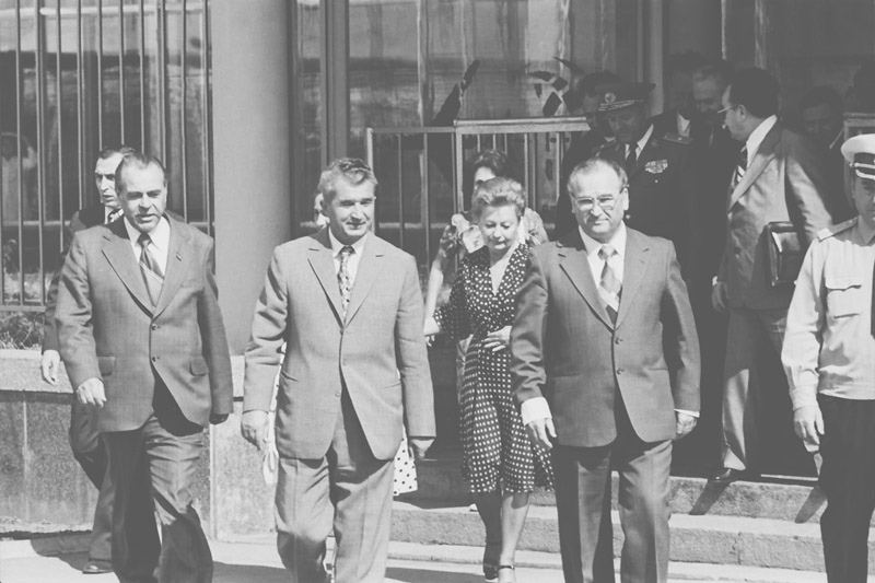 In the glasses: Ivan Ivanovich Bodiul - first secretary of Central Committee of the Communist Party of the Moldavian SSR. In August 1976, Nicolae Ceauşescu, his wife, and his son were the first high-level Romanian visitors to Chișinău since World War II.